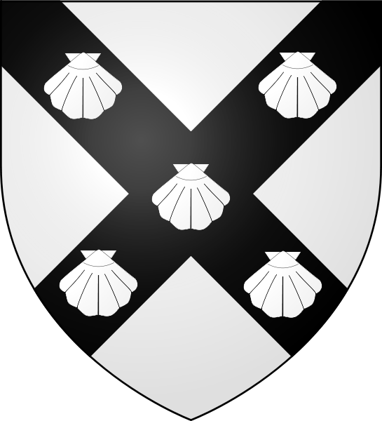 Coat of arms of the Conolly family of Castletown House, County Kildare, Ireland: Argent, on a saltire sable five escallops of the field.